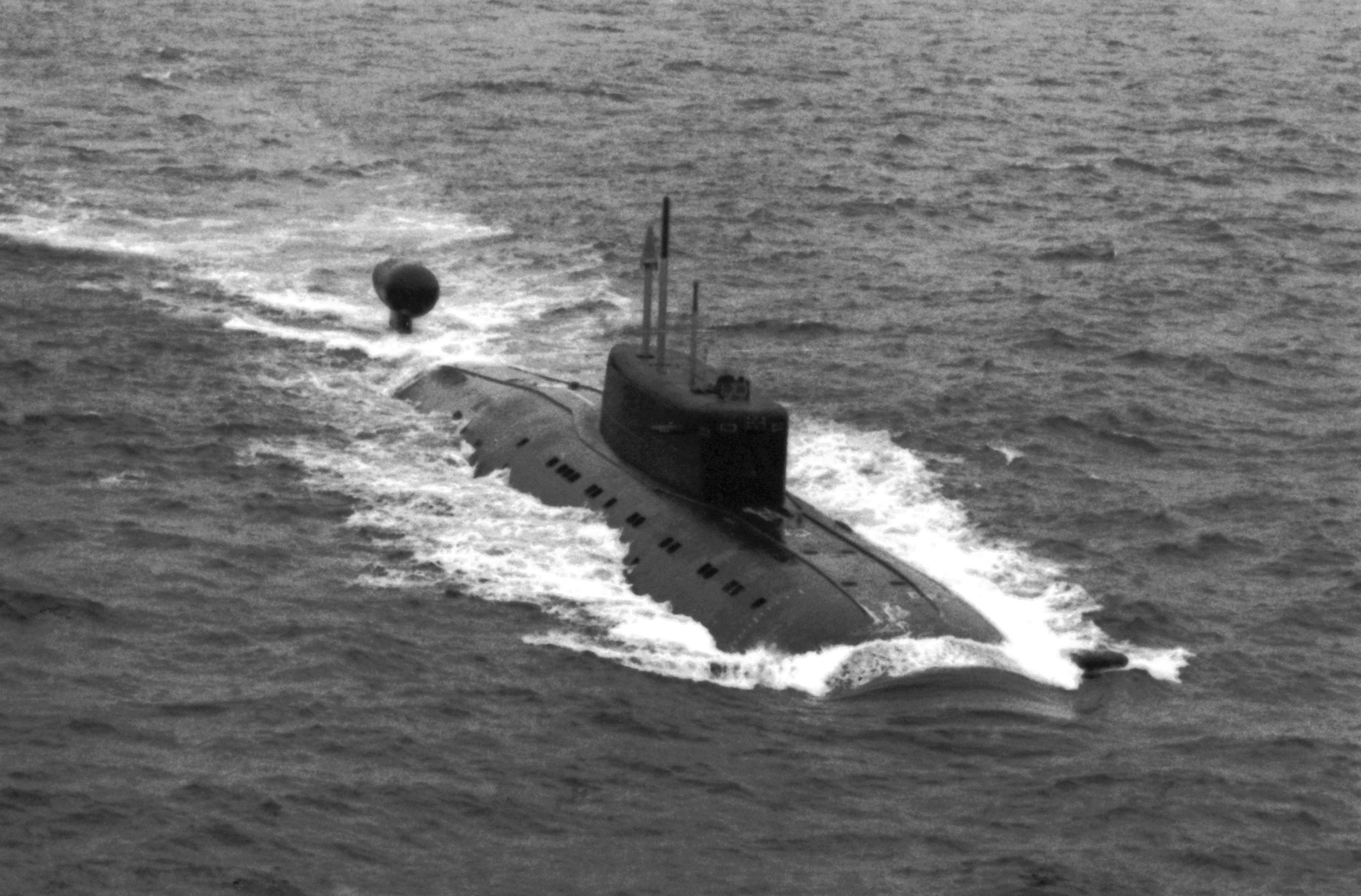 Aerial starboard bow view of a Russian Navy Northern Fleet Sierra II class nuclear-powered attack submarine underway on the surface.